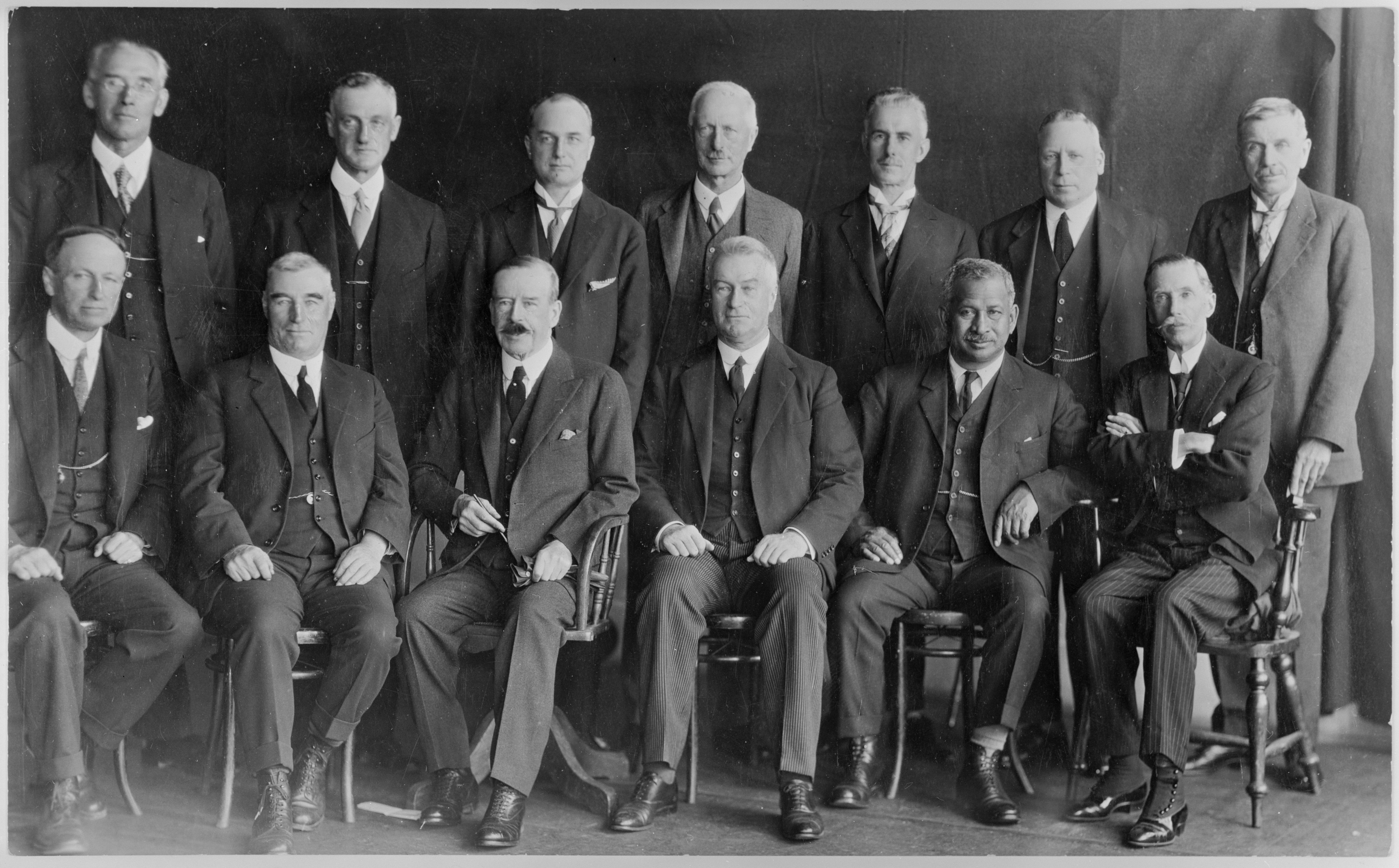 Photograph of Joseph Ward's United Party cabinet in 1928.